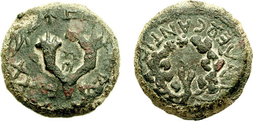 JUDAEA, Hasmonean Kings. Mattathias Antigonos. 40-37 BCE. Æ 25mm (14.96 gm, 1h). Double cornuacopiae tied at base / Wreath with upright tie ends. Meshorer 36f; Hendin 481. VF, dark green patina with touches of red and patches of encrustation.